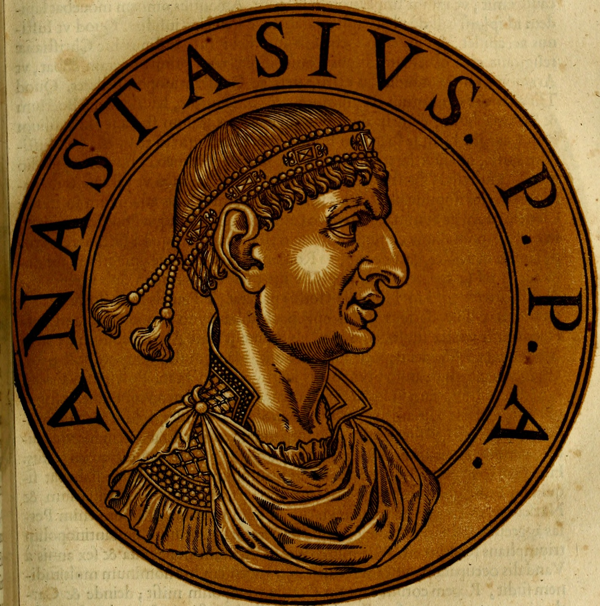 Title: Icones imperatorvm romanorvm, ex priscis numismatibus ad viuum delineatae, & breui narratione historicâ Year: 1645 (1640s) Authors: Goltzius, Hubert, 1526-1583 Gevaerts, Jean-Gaspard, 1593-1666 Rubens, Peter Paul, 1577-1640 Subjects: Emperors Emperors Numismatics, Roman Publisher: Antverpiae, Ex officina plantiniana Balthasaris Moreti Text Appearing Before Image: Sacerdotes quam laicos, donee Theodericus RexRomam reuer-fus Concilium (quamquam hasrefeos erat Ananas) habuit,in quo Sym-machus in Romanum Antiftitem fuit confirmatus,ac Laurentius Nu-cerias Pontifex inftitutus, qui non ceflauit vel quotidianos excitare tu-multus. Ob quam fane cauflam a Symmacho Pontificatu motus, inDalmatian! relegatus eft. Cum verb iam Anaftafius in Ariana hasten*perfeuerabat, Papa Hormifda (qui poft Symmachum ele6tus erat)Eu-nodium Papienfem Epifcopum cum aliquot Chriftianis alijsadipfummifit, vt illorum monitis ad fidem rediret Catholicam. Ceterum non(bliim monitadogmataque eorum derifit, fed magna etiam contume-lia ex confpe&u fiio illos fecedere iuflit. Deinde in frada naui eos col-locauit, prascepitque non antea in terram exirenr, quam e fuo Regnoin Italiam fuifTent reuerfi. Item Pontifici nuntiarent, Imperatoris mu-nus effeimp^rare&iubere, nonaliorum iullis obedire. Haudmultbpbftfulmine i&us interijt. 179 X c. HABET SVVM VENENVMBLANDA O R A T IO. Text Appearing After Image: Orientem poffedit xxvil. annis; fulmine i£tus perijt. Z 2 180